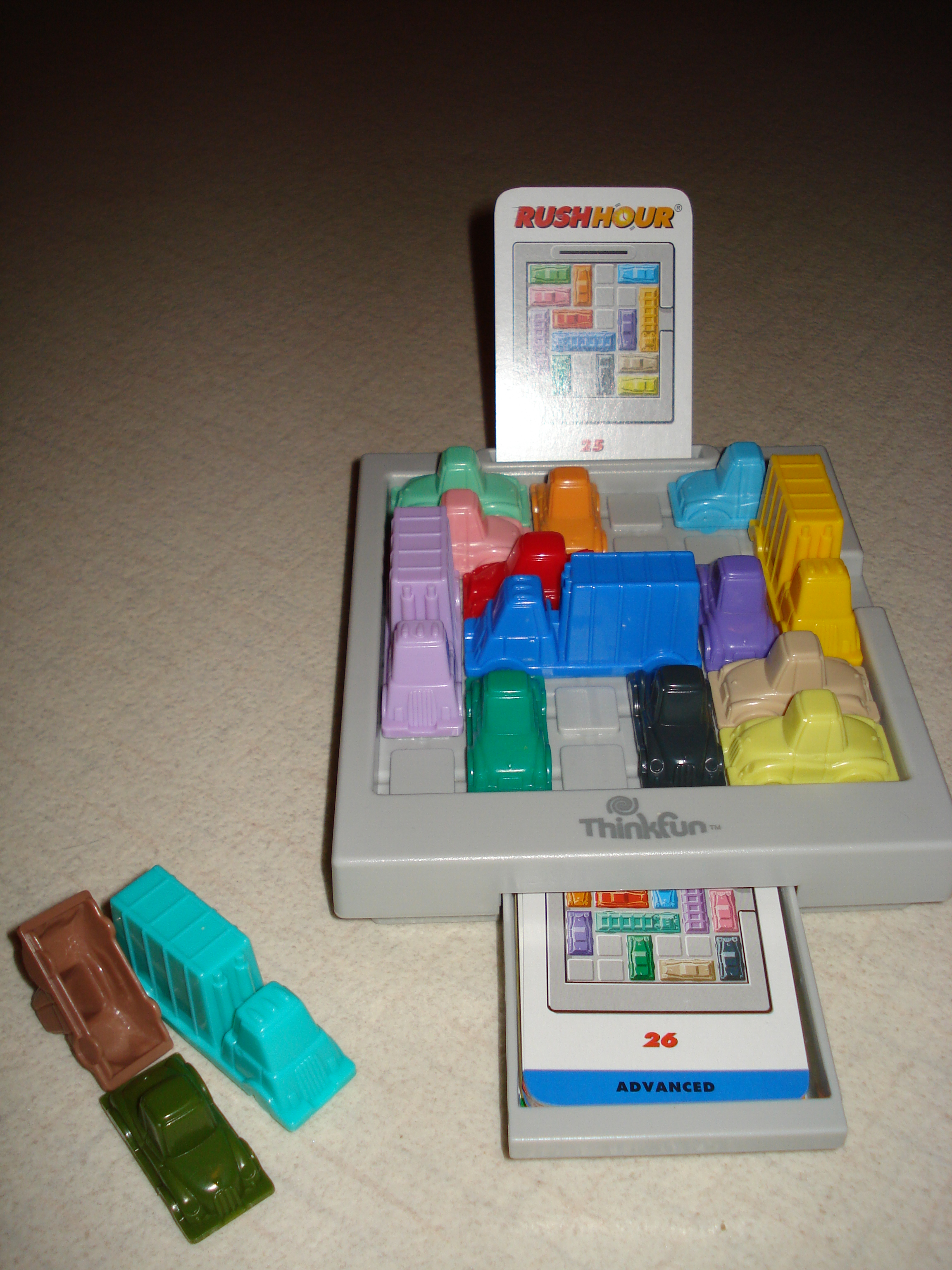 Rush Hour (board game)